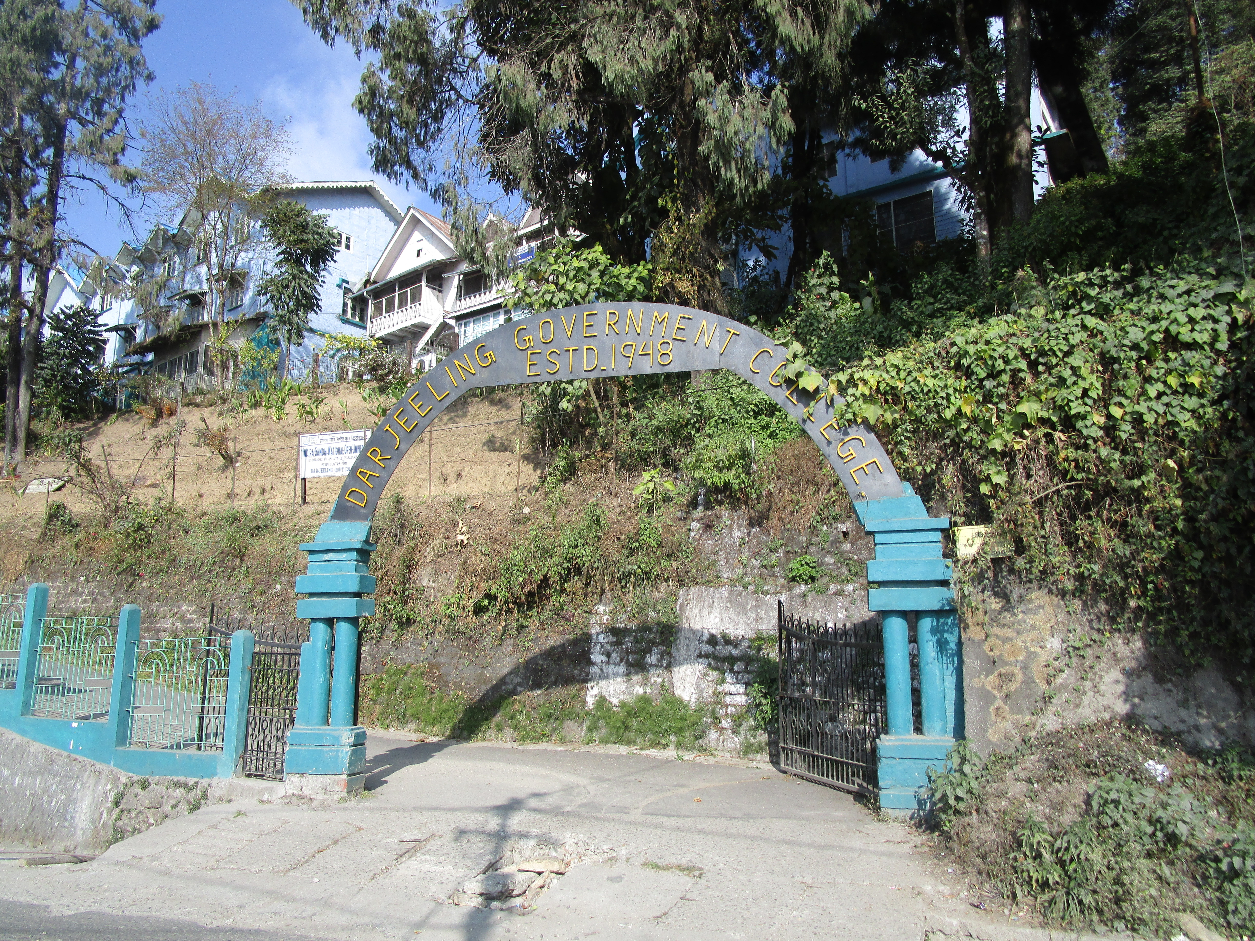 The main gate of Darjeeling Government College.